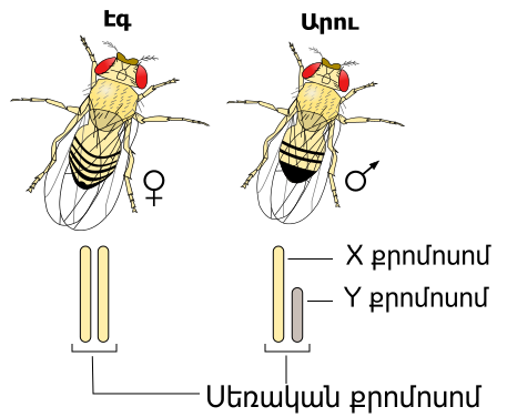 Drosophila XY sex-determination